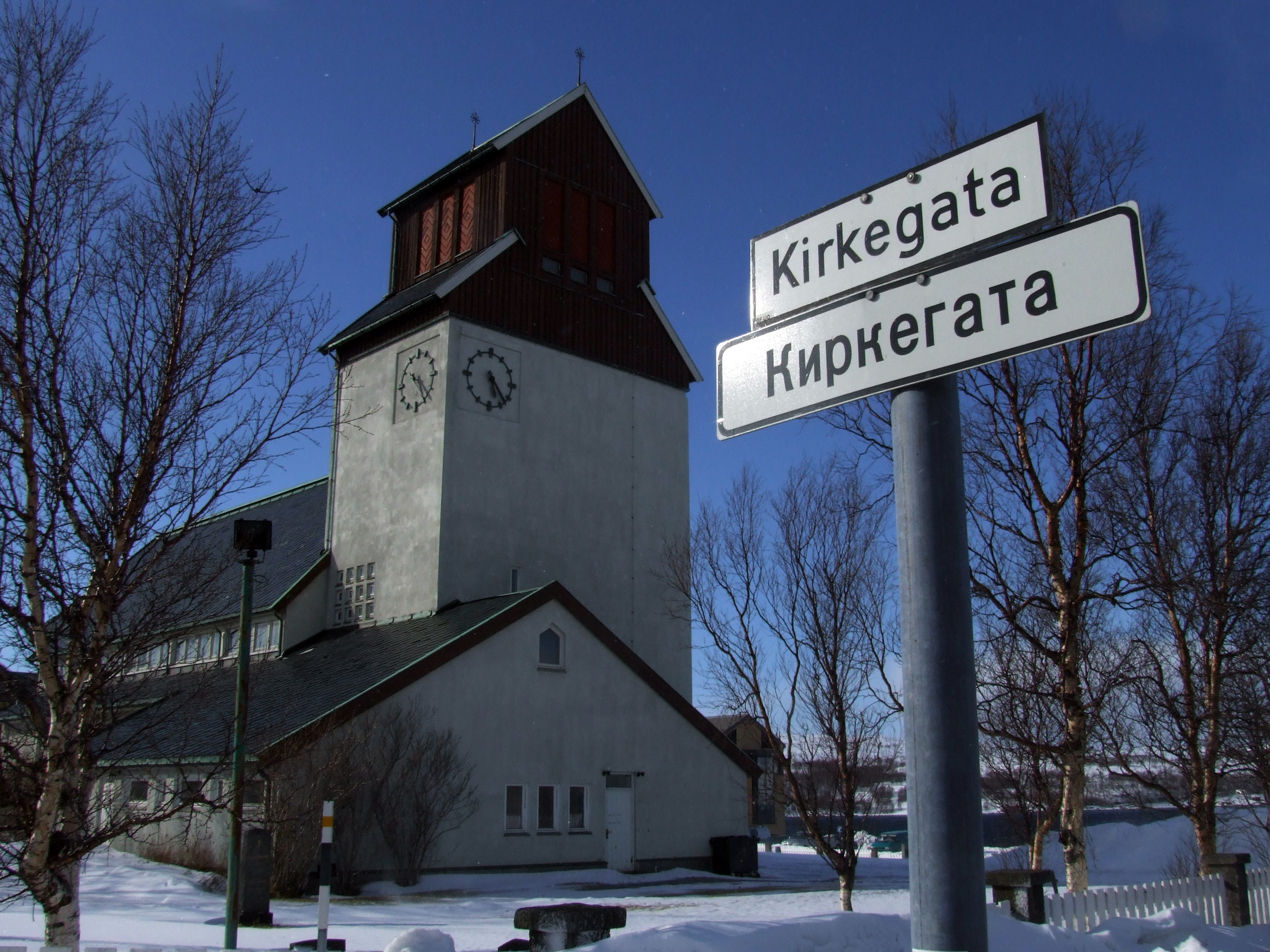 Kirkenes Church with roadsigns in Norwegian, also with Russian letters, 2008 (Kirkegata means Church Street, and Киркегата is a transliteration, not a translation)